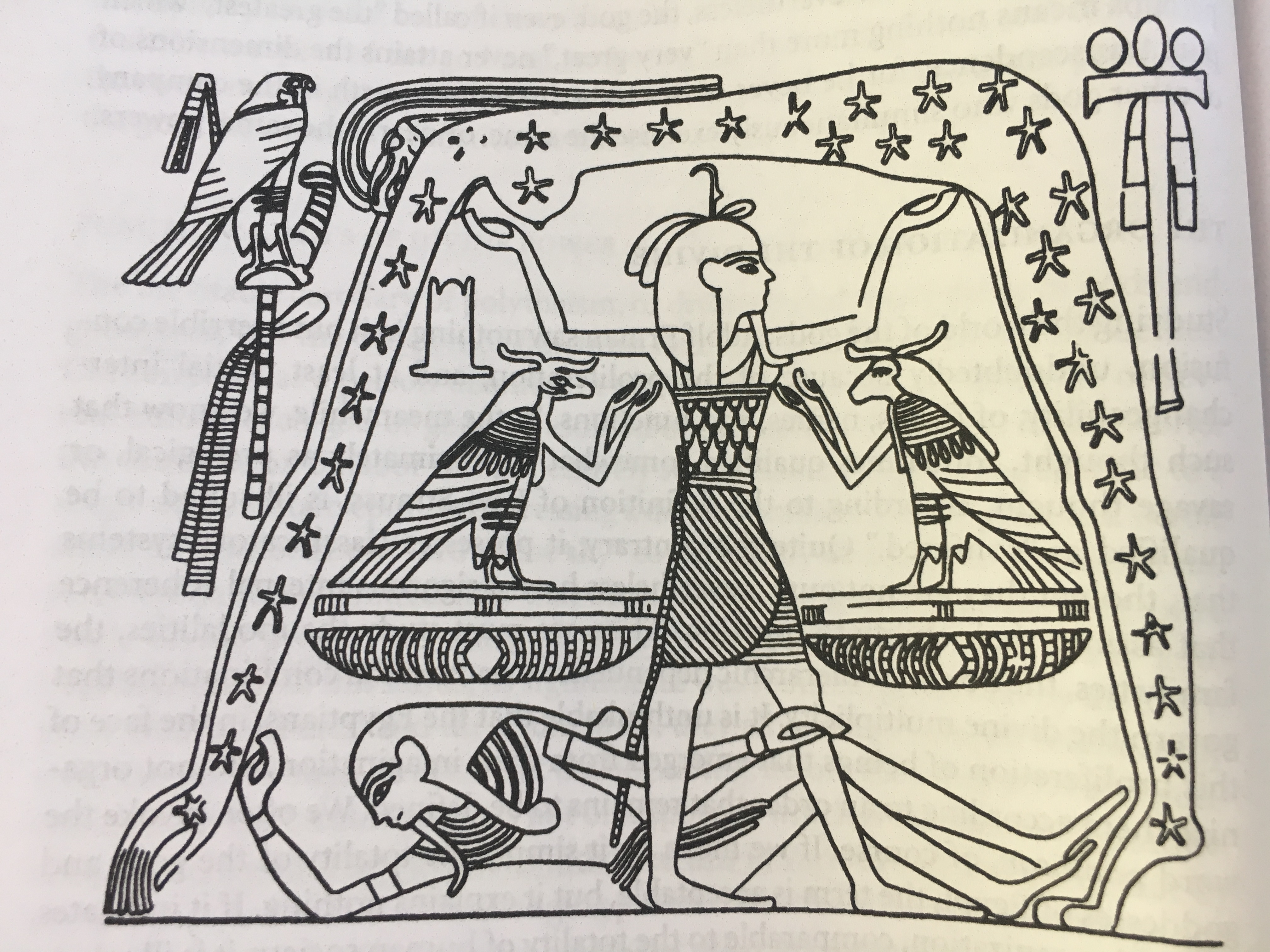 Shu separates the earth (Geb) from the sky (Nut) by holding up Nut.